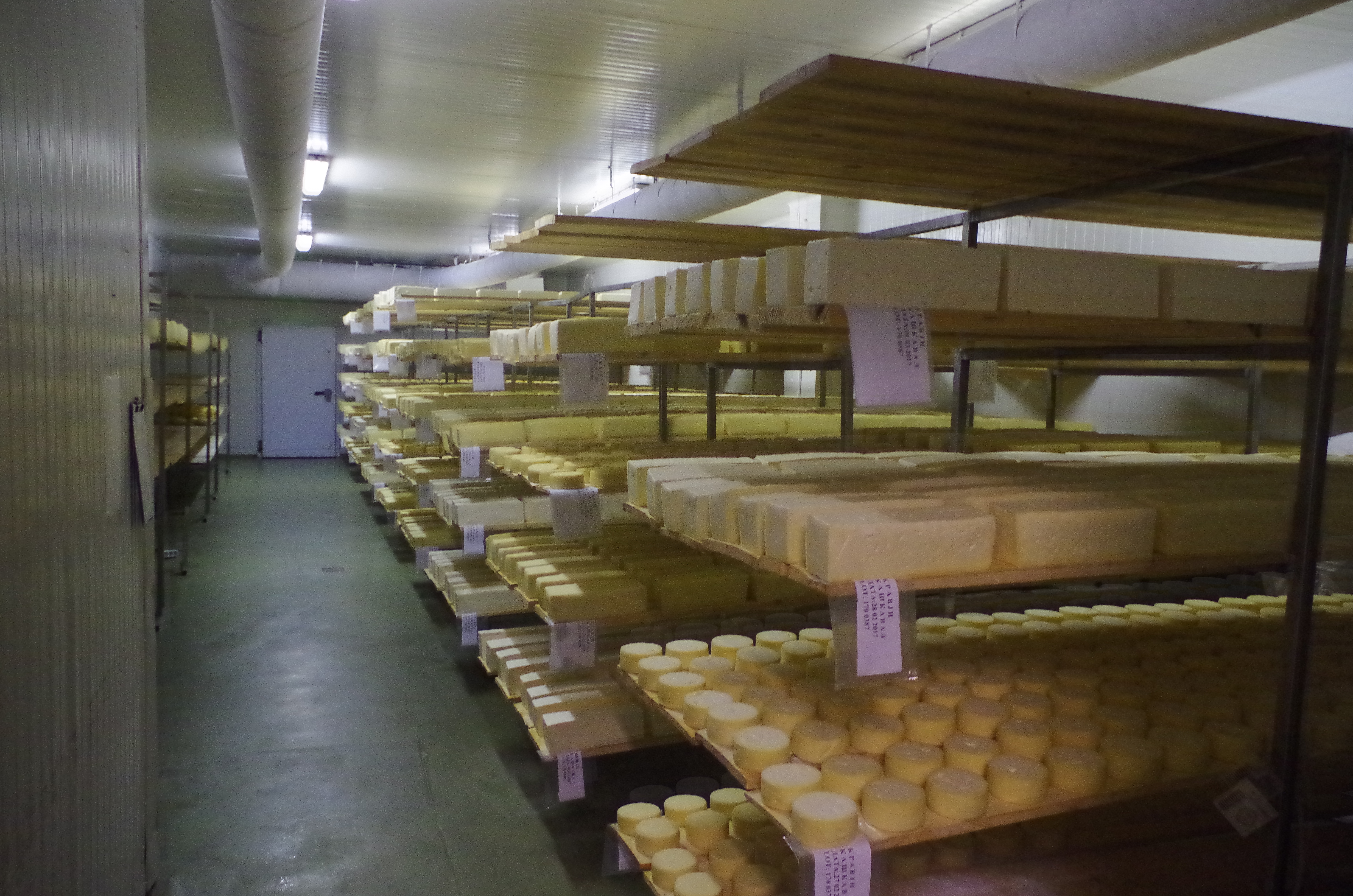 Dairy Osogovo Milk in Sokolarci, Macedonia